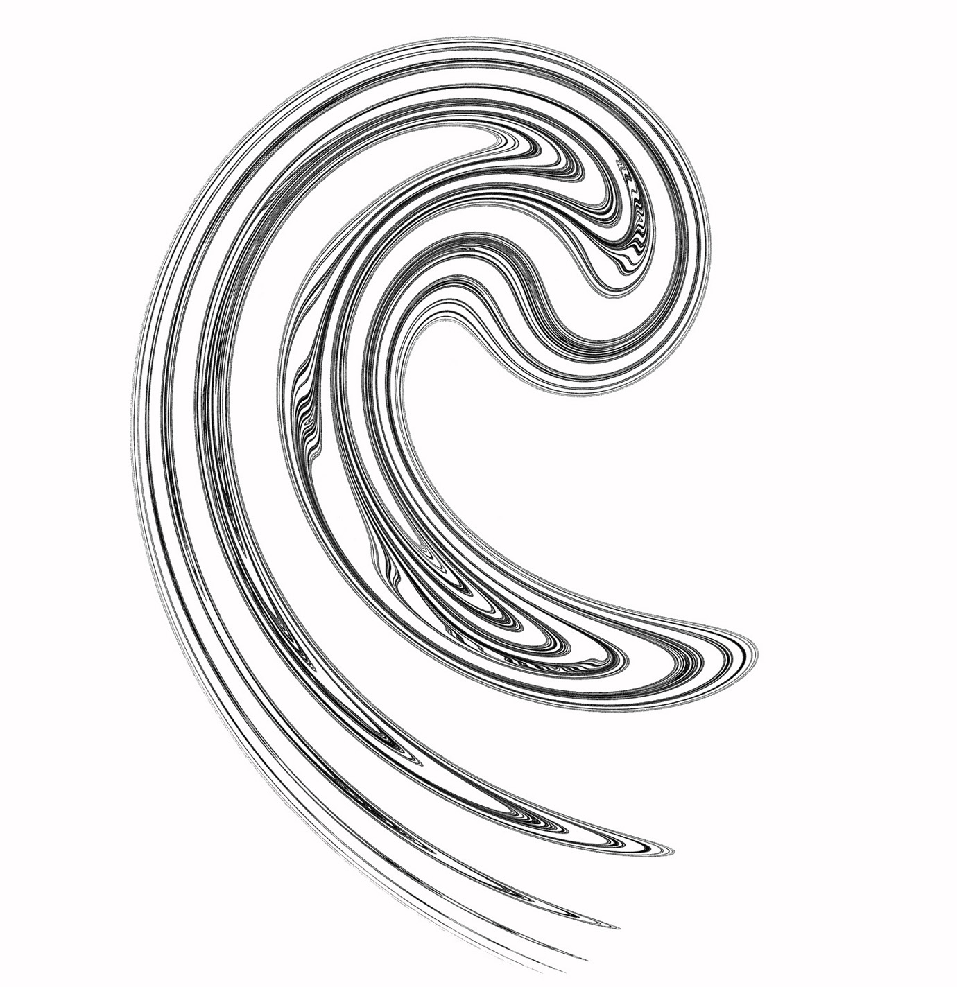 Ikeda attractor for parameters a=1, b=0.9, k=0.4 and p=6.